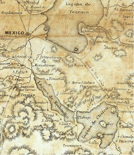 Excerpt from Map Of The Valley Of Mexico and the Surrounding Mountains, by Bruff, J. Goldsborough; Disturnell, John, 1847, highlighting Lake Chalco.